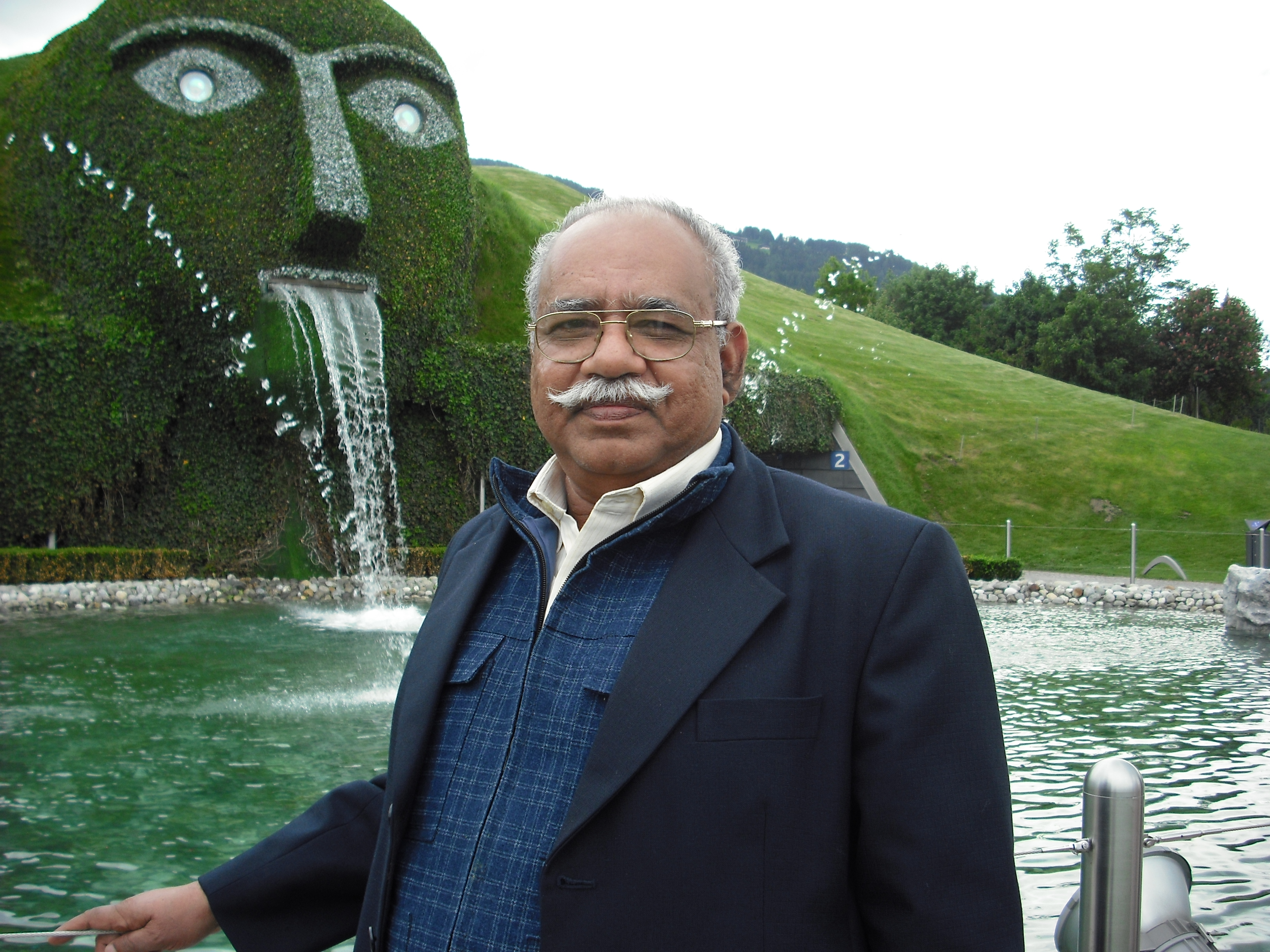 V J Mathes at Swarovski Kristallwelten in Wattens, Austria, during his World Tour